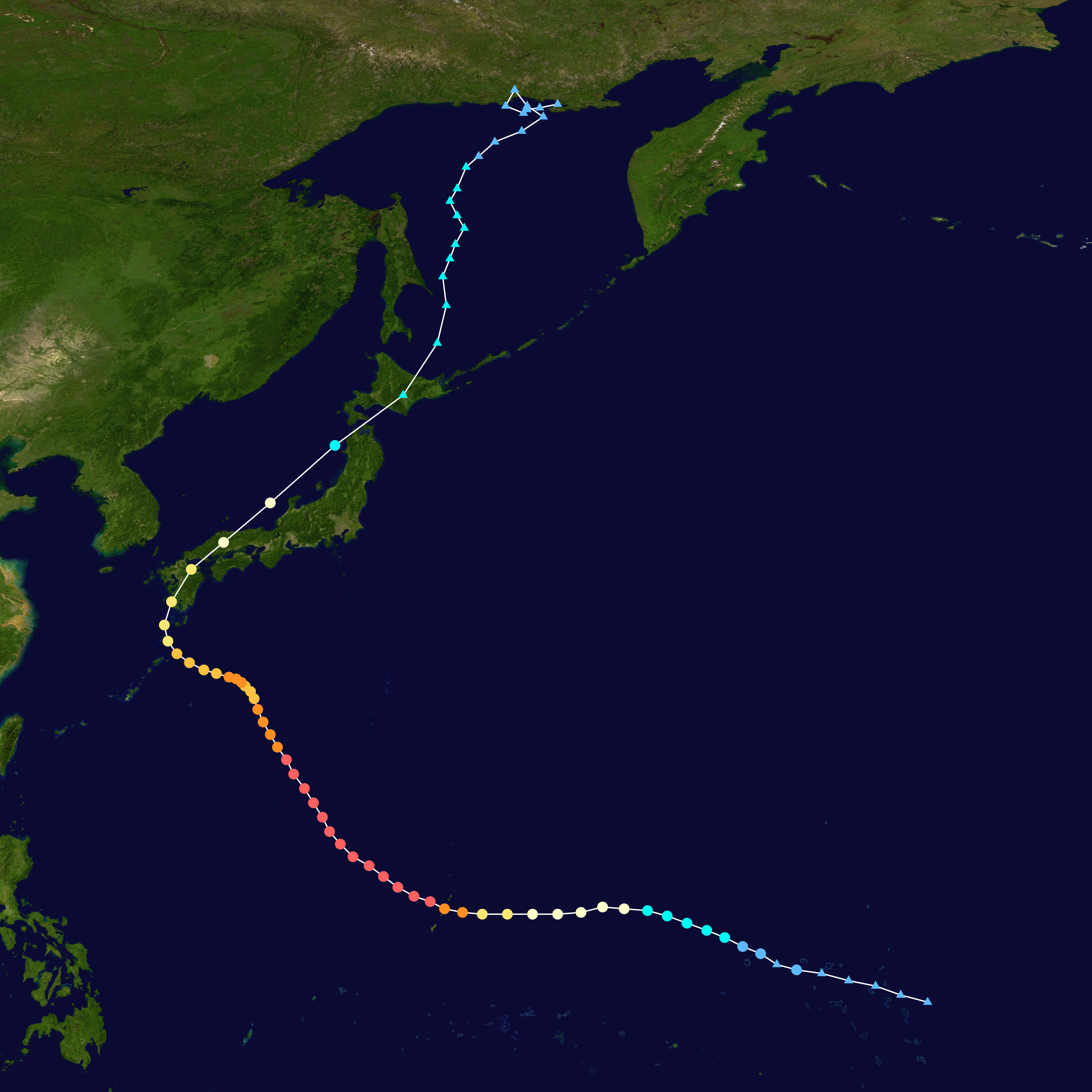 Typhoon Chaba (2004) track. Uses the color scheme from the Saffir-Simpson Hurricane Scale.